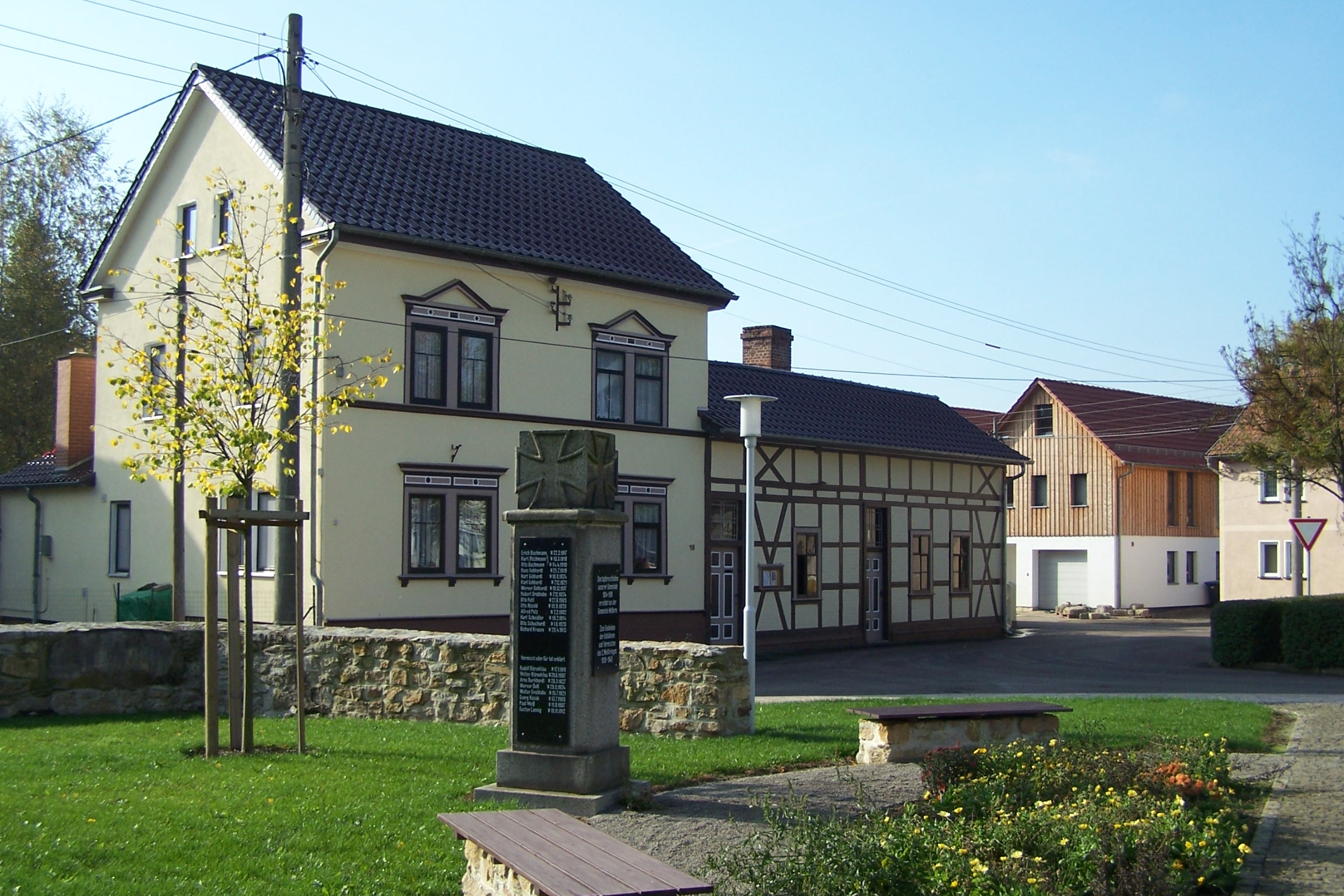 Melborn